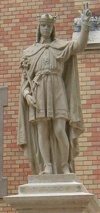 Statue of Prince Saint Imre, Máriaremete, Hungary.